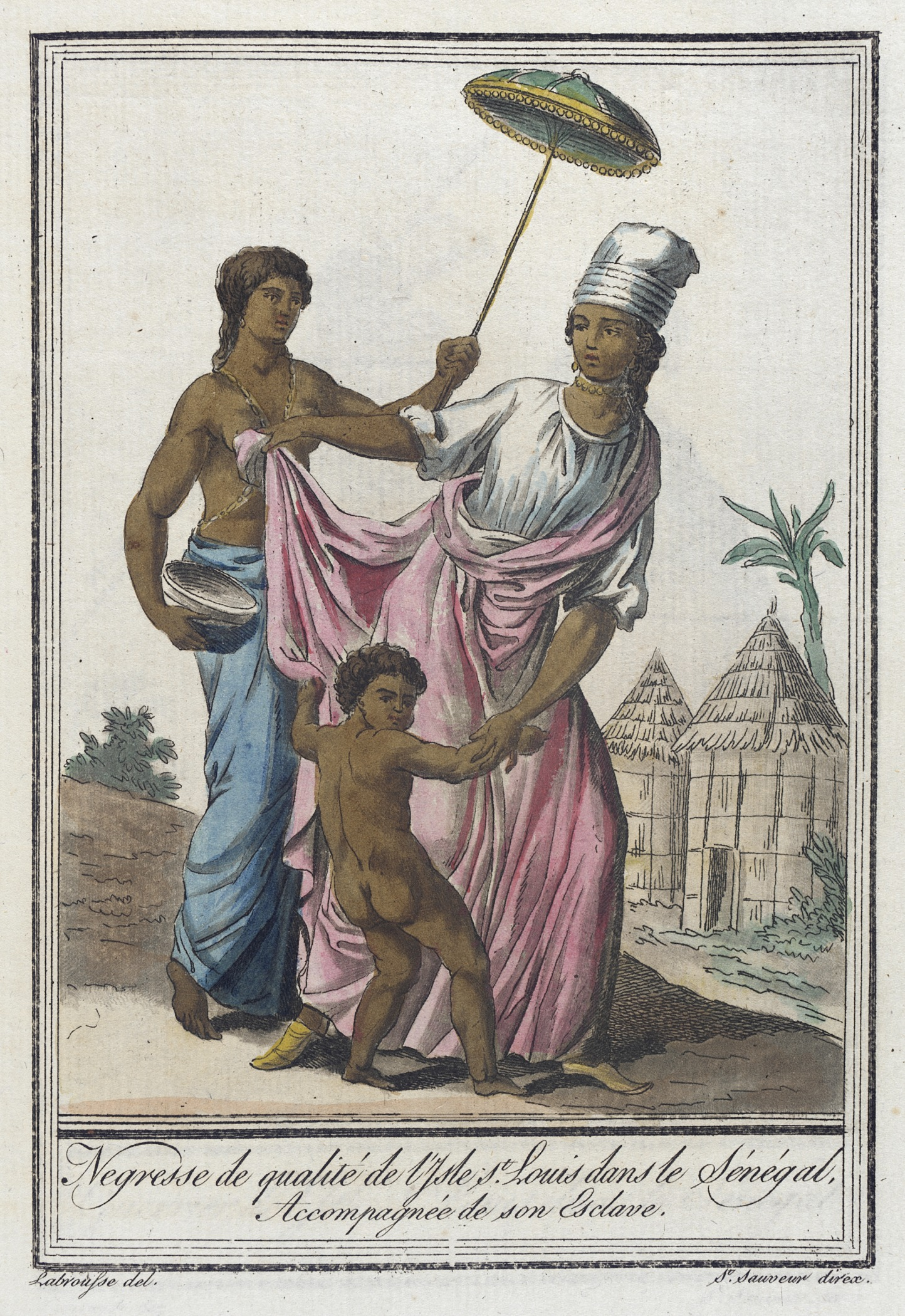 France, circa 1797 Prints; engravings Hand-tinted engraving on paper Sheet: 10 1/2 x 7 7/8 in. (26.67 x 20.01 cm); Composition: 7 3/8 x 5 1/4 in. (18.73 x 13.34 cm) Costume Council Fund (M.83.190.287) Costume and Textiles